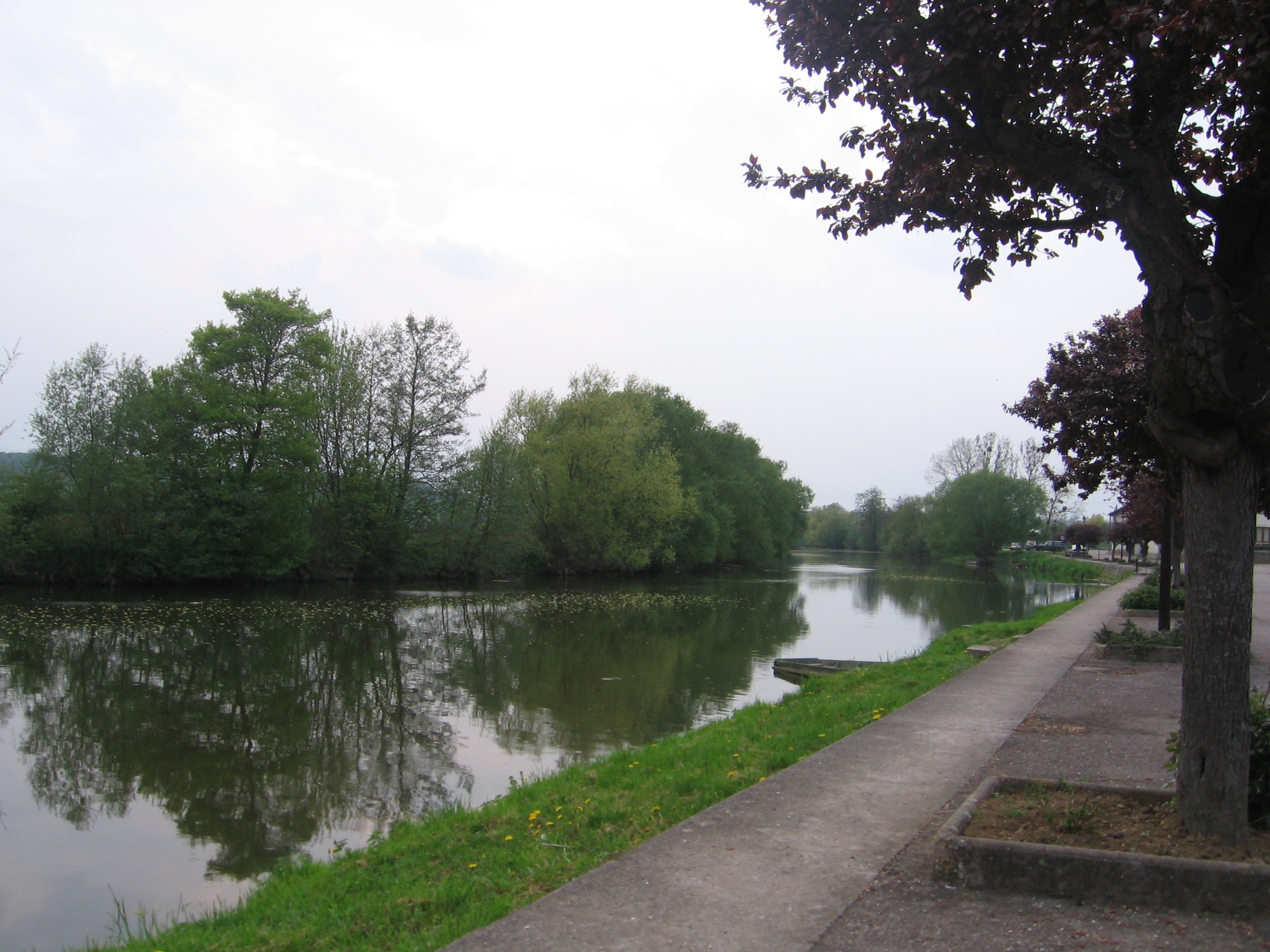 river Madon near Haroué, France, may 2006